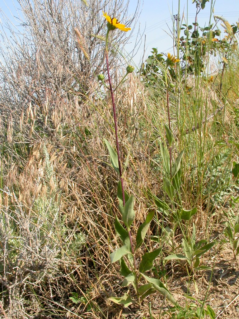 This dry site inhabiting perennial often occurs as solitary erect unbranched stems in moderately disturbed vegetation.